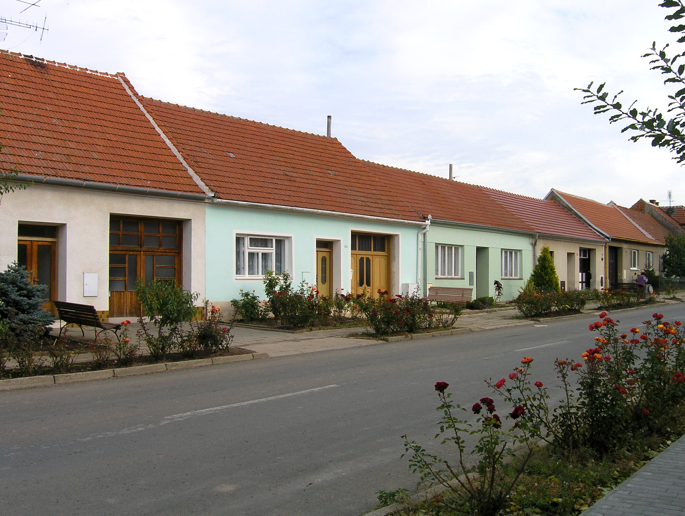 East part of Bořetice village, Czech Republic